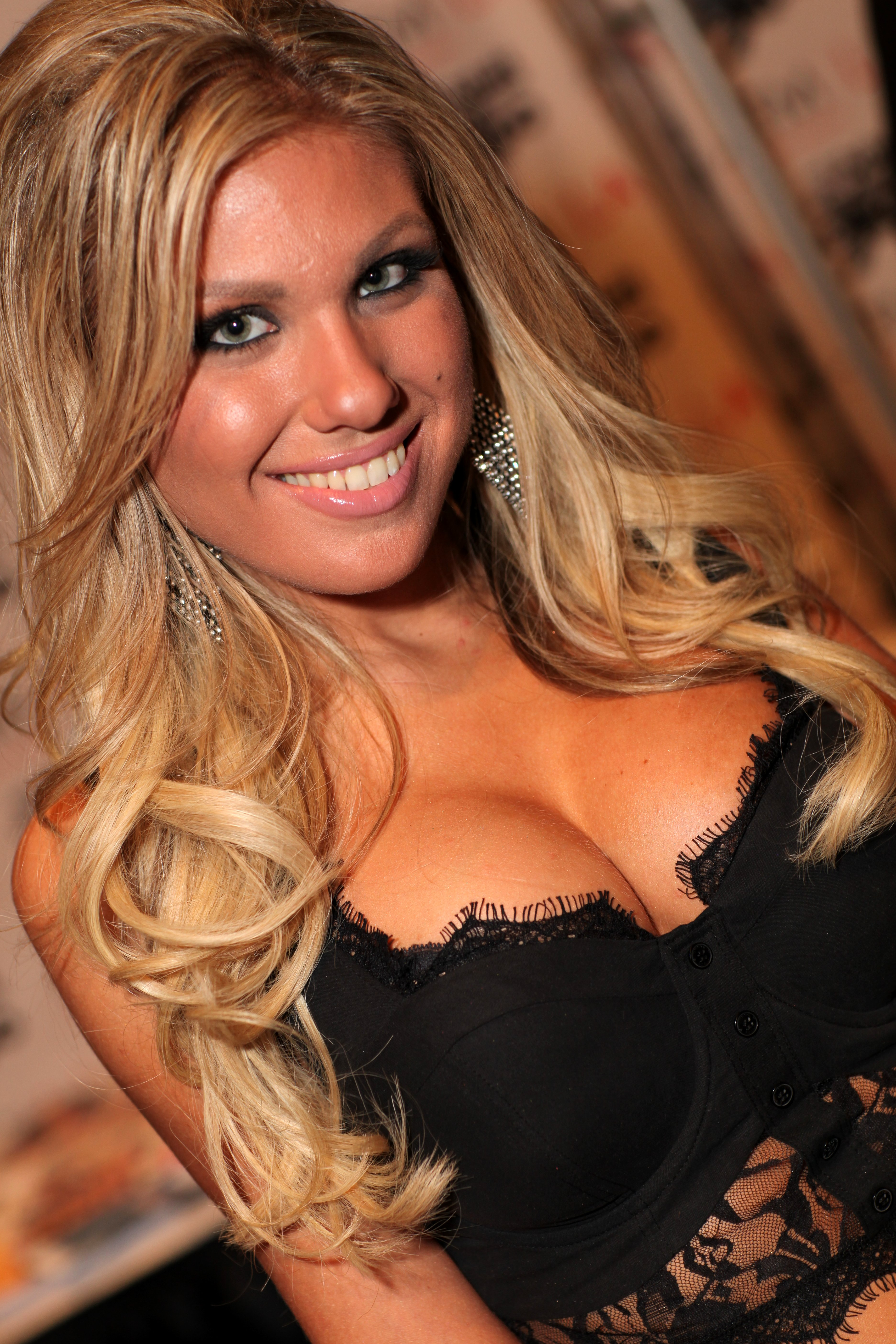 Aubrey Addams - Photos from the 2013 AVN Expo & AVN Awards held at the Hard Rock Hotel & Casino in Las Vegas. Photo by Michael Dorausch. Please do tweet these photos but don't remove my copyright info without asking. This photo is licensed under a Creative Commons license. If you use this photo within the terms of the license or make special arrangements to use the photo, please list the photo credit as "Michael Dorausch" and link the credit to .